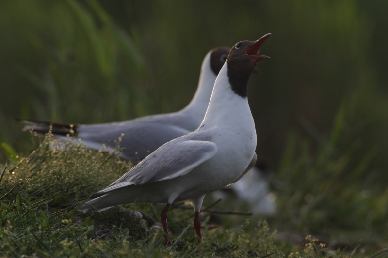 Black-headed gull (Chroicocephalus ridibundus), Mekszikópuszta, Hungary